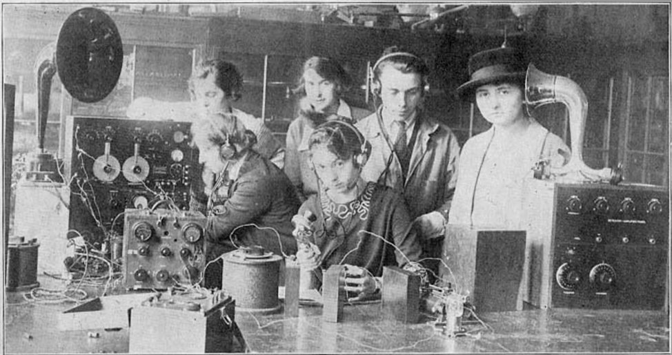 Photo of a class in radio technology at Radcliffe College 1922. Radio broadcasting had just begun in 1920 and radio had expanded explosively from a high tech hobby to the first electronic mass entertainment medium.